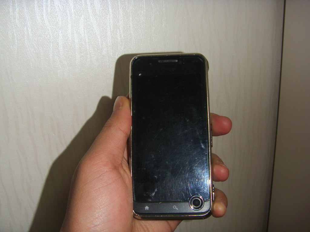 LG CYON OPTIMUS Q